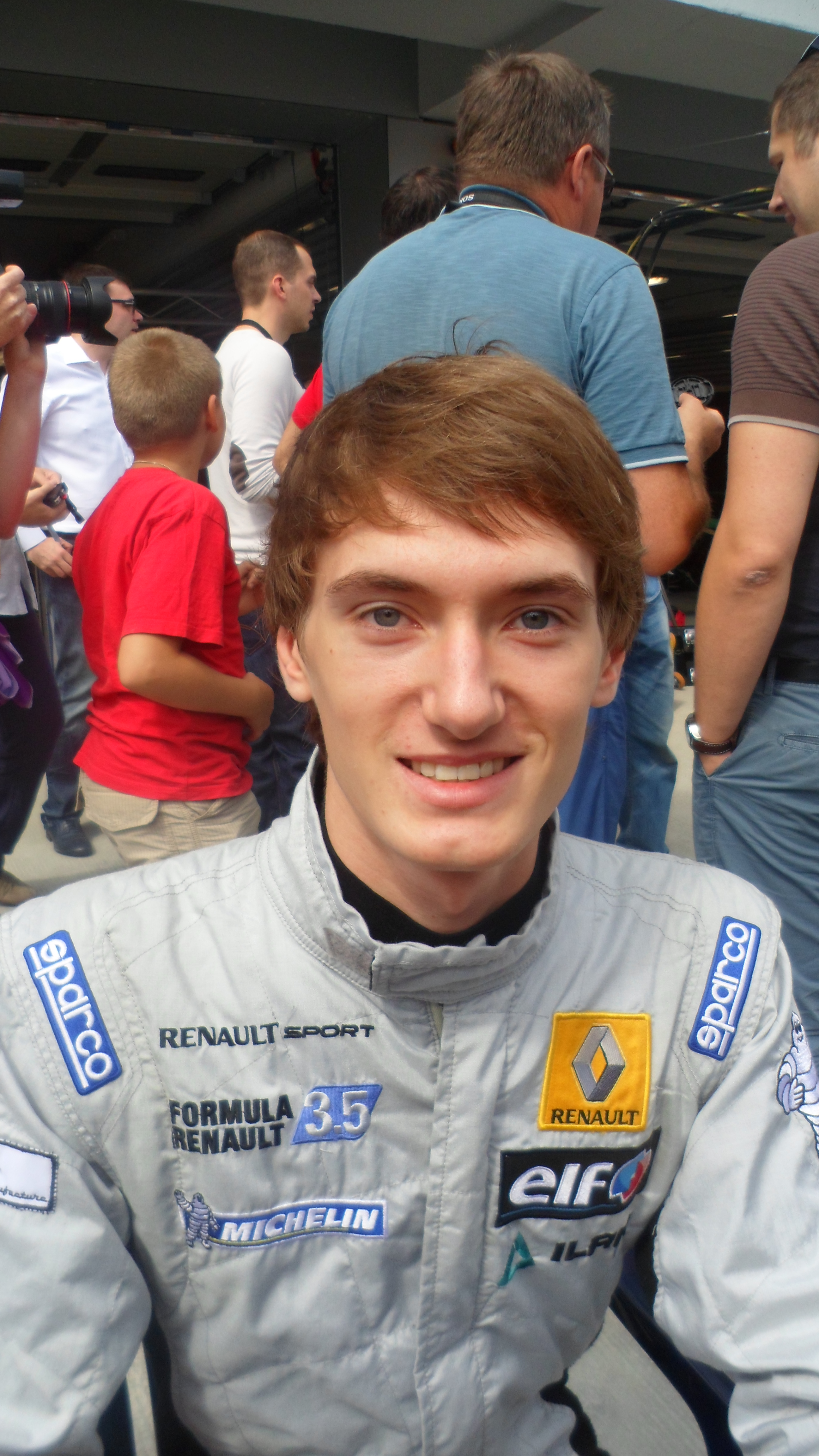 Nikolay Martsenko on autograph session at Moscow Raceway, 14 July 2012